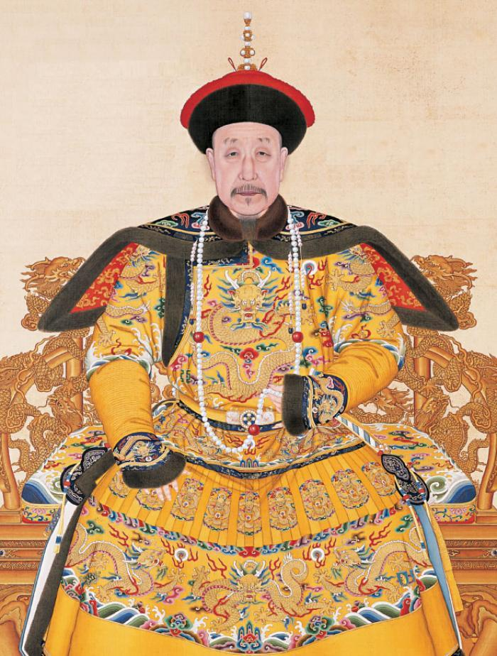 'Portrait of the Qianlong Emperor in Court Dress